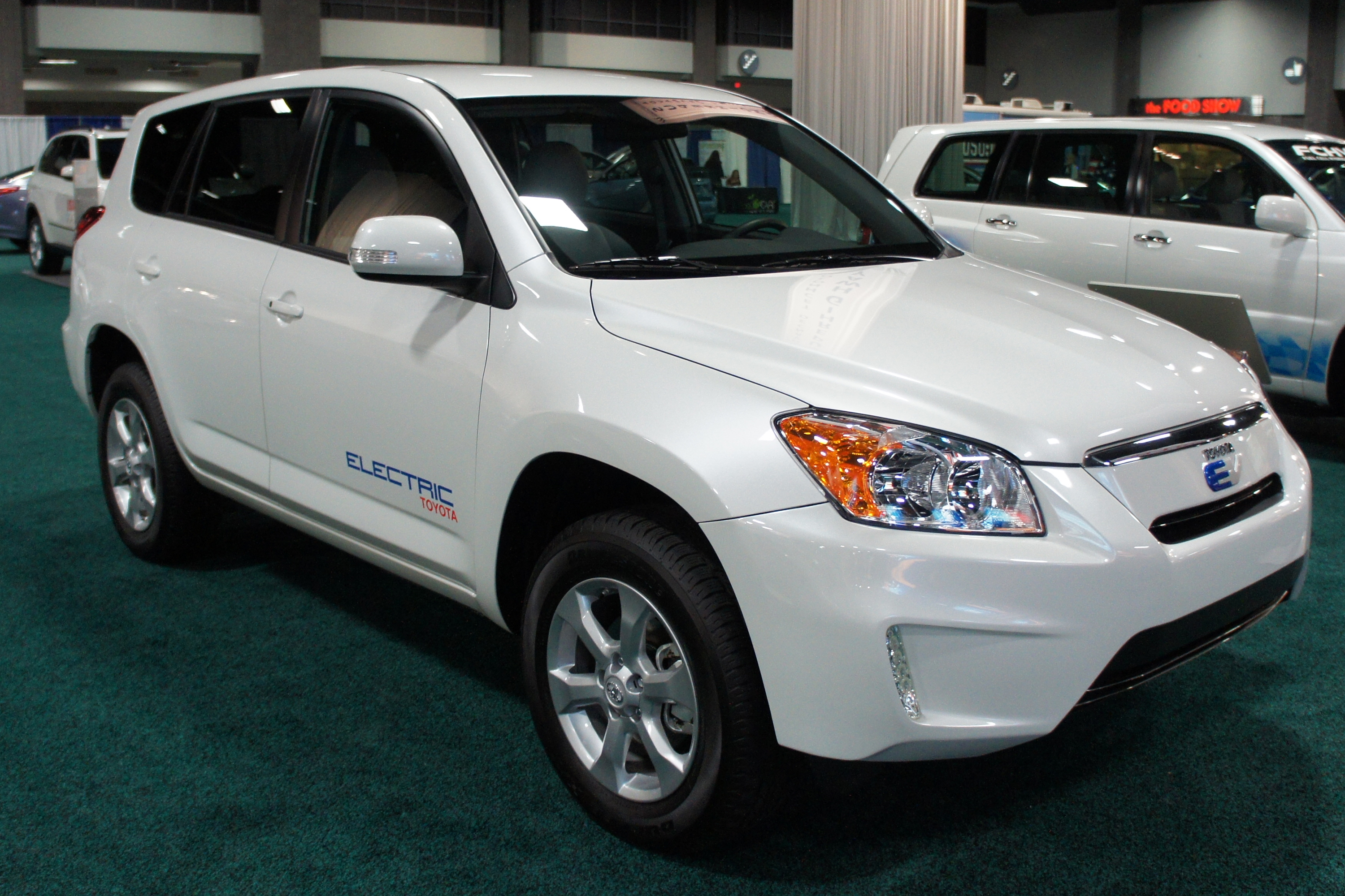 Toyota RAV4 EV prototype (demonstrator) 2012 Washington Auto Show. This is one of the 35 vehicles built for demonstration and evaluation.